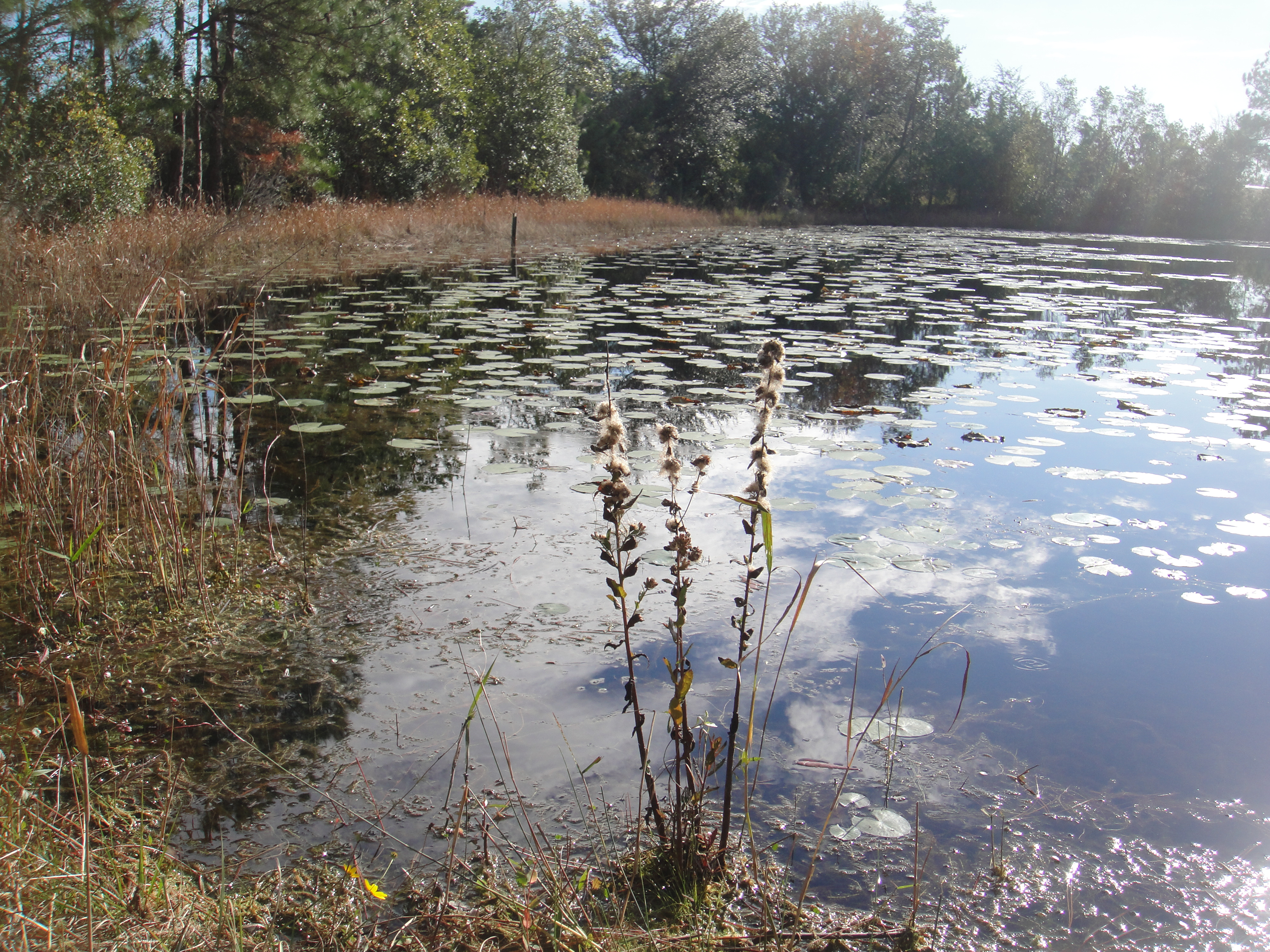 Pond by near the entrance of Cypress Creek Preserve. Land o' Lakes, Florida. December 2011.